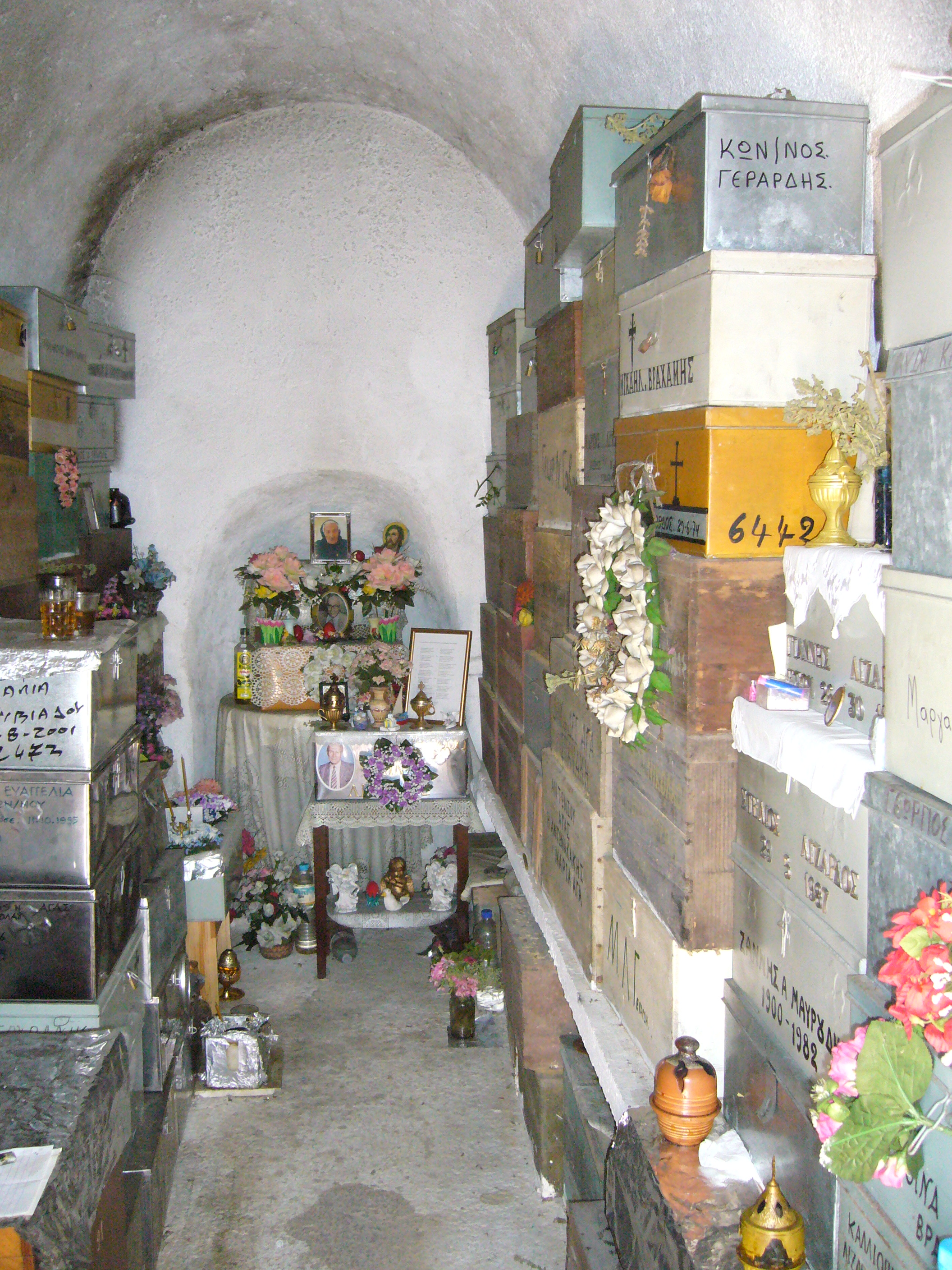 Contemporary ossuaries (both wooden and metal) containing human skeletal remains in Greece